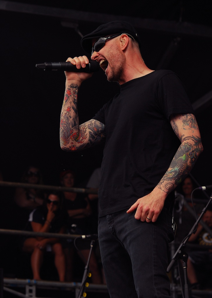 Dropkick Murphys at the 2011 Cisco Ottawa Bluesfest. By: Brennan Schnell